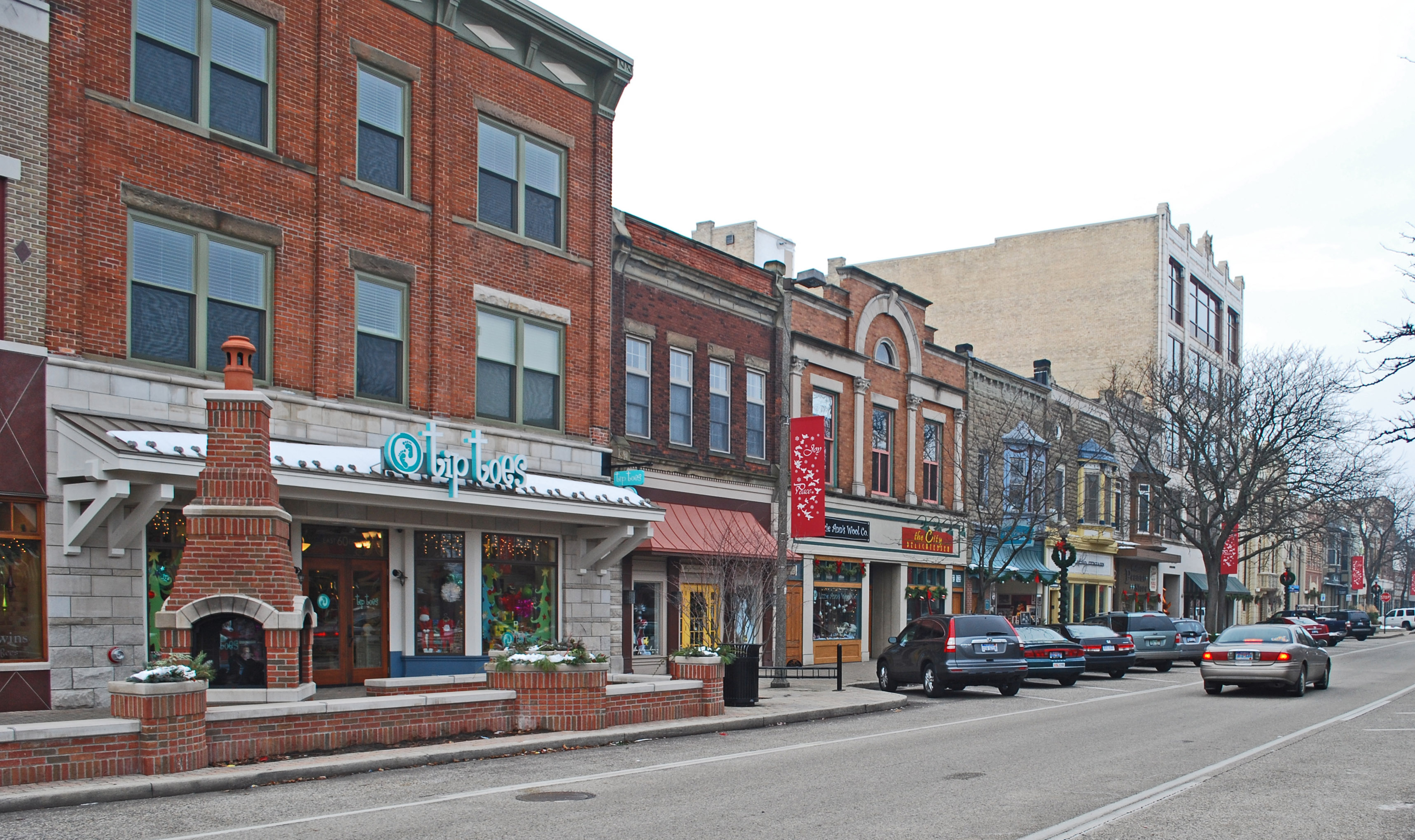 Holland Downtown Historic District, Holland MI